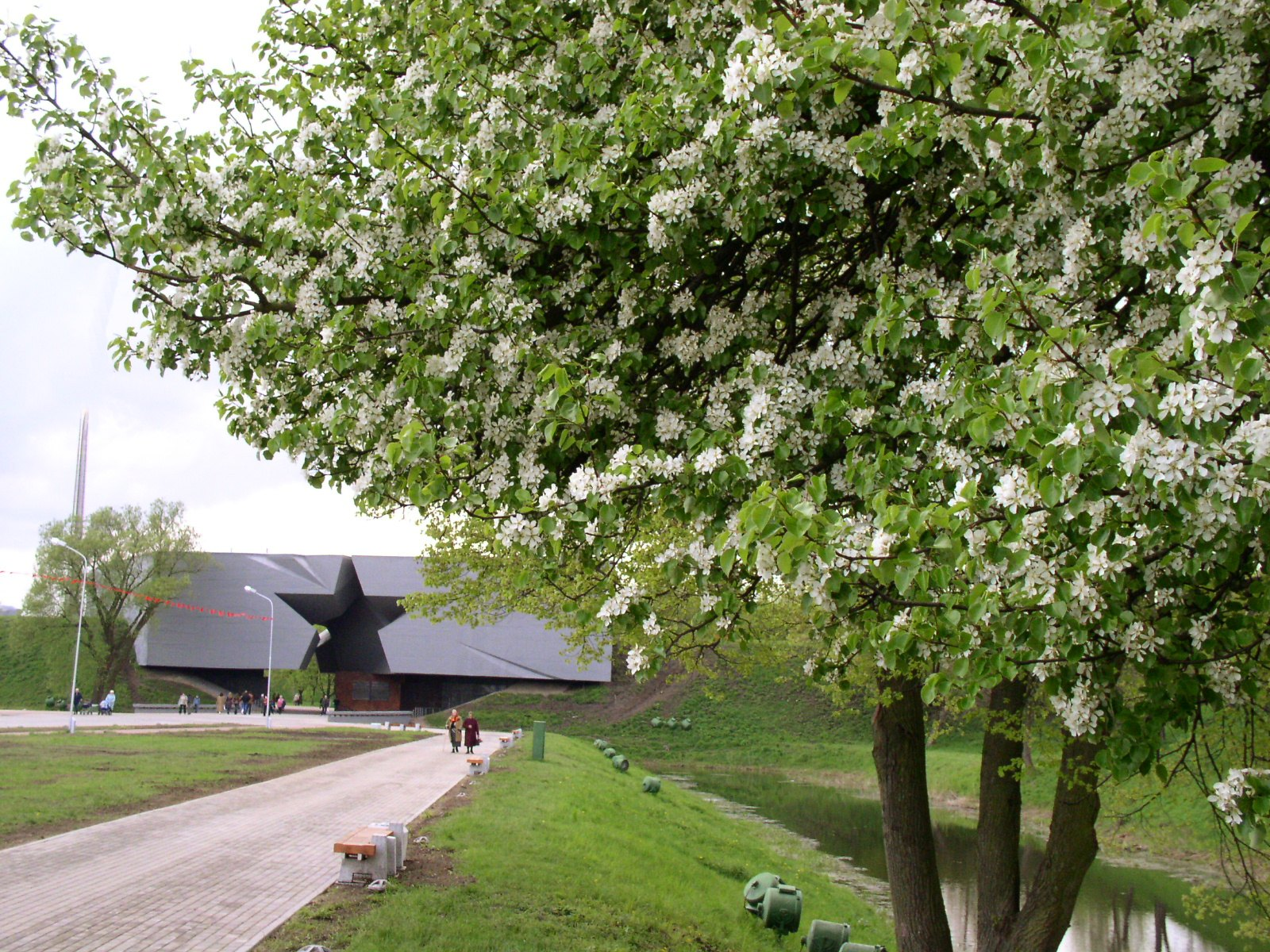 Brest Fortress. The Main Entrance to the War Memorial.